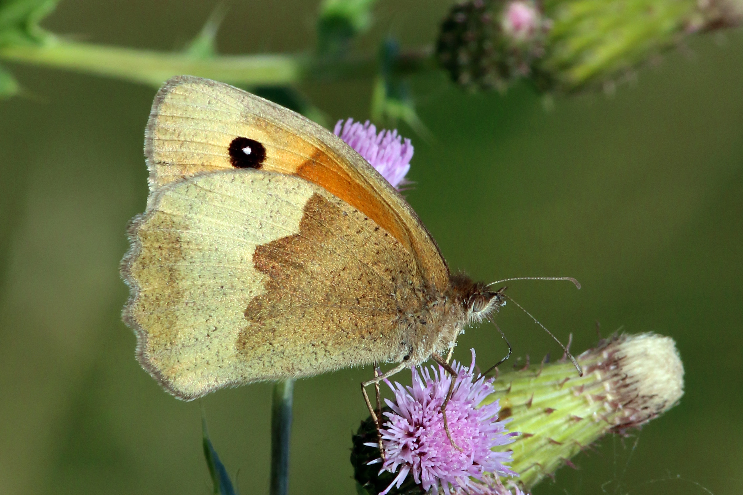 Meadow brown butterfly (Maniola jurtina) male underside no spots, Aston Rowant NNR (South), Oxfordshire